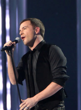 Shane Filan at The Nobel Peace Price Concert 2009